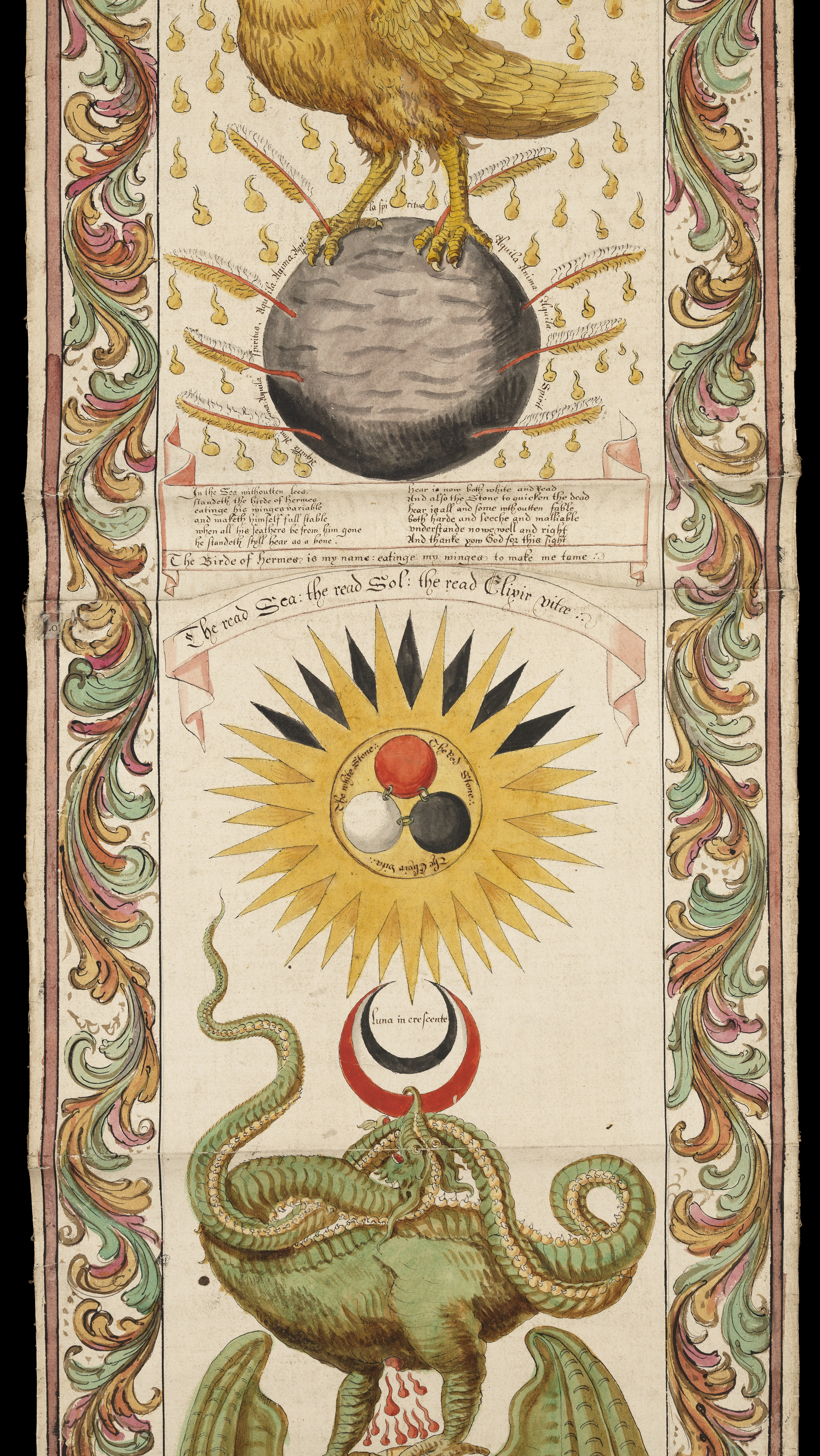 Cryptogram 5 of 7, three spheres chained together; one red, one white and one black, against a sunburst image. Image taken from Rotulum hieroglyphicum G. Riplaei Equitis Aurati, an alchemical manuscript of the 16th century showing the processes for the production of the philosopher's stone in pictorial cryptograms. Archives & Manuscripts Keywords: George Ripley; Alchemy; Philosophy; Dragon